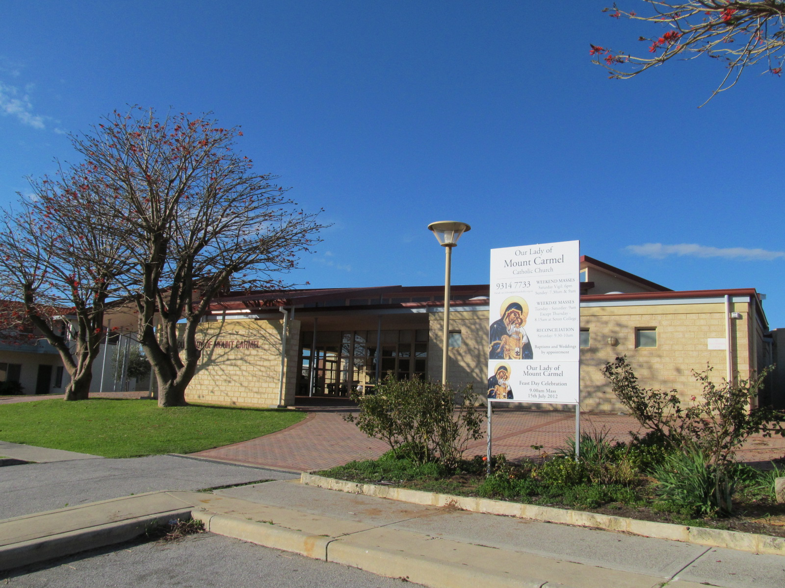 Front of Our Lady of Mount Carmel Roman Catholic Church, Hilton, Western Australia.